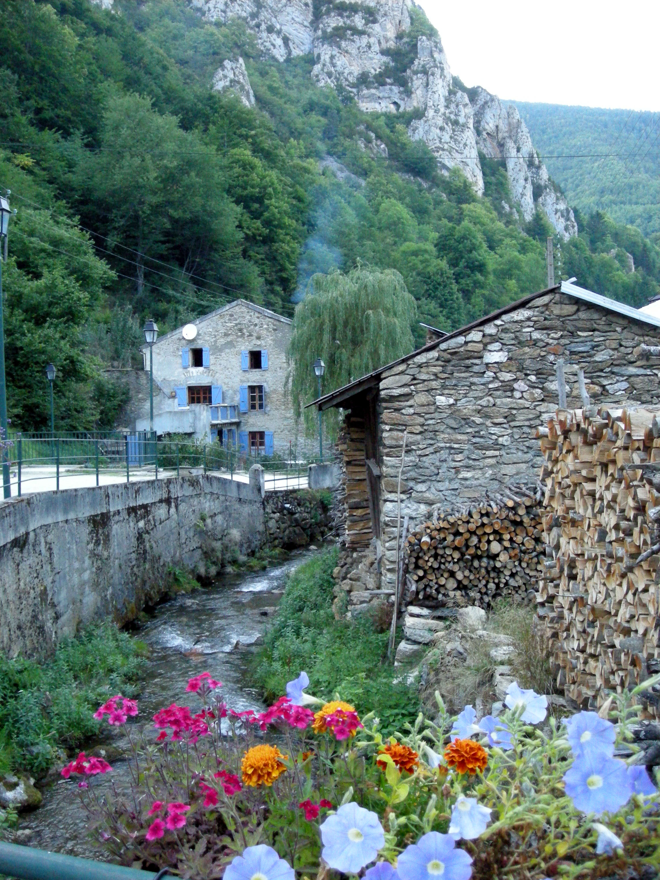 Rébenty River at Lafajole (Aude)